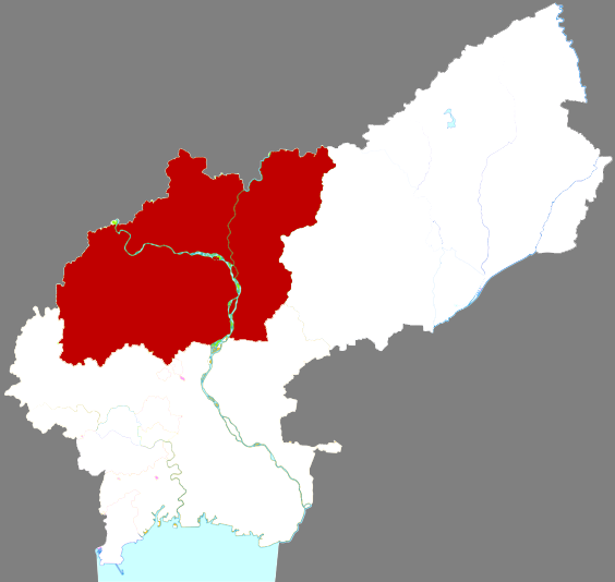 Location of Yi county city in Jinzhou City, China